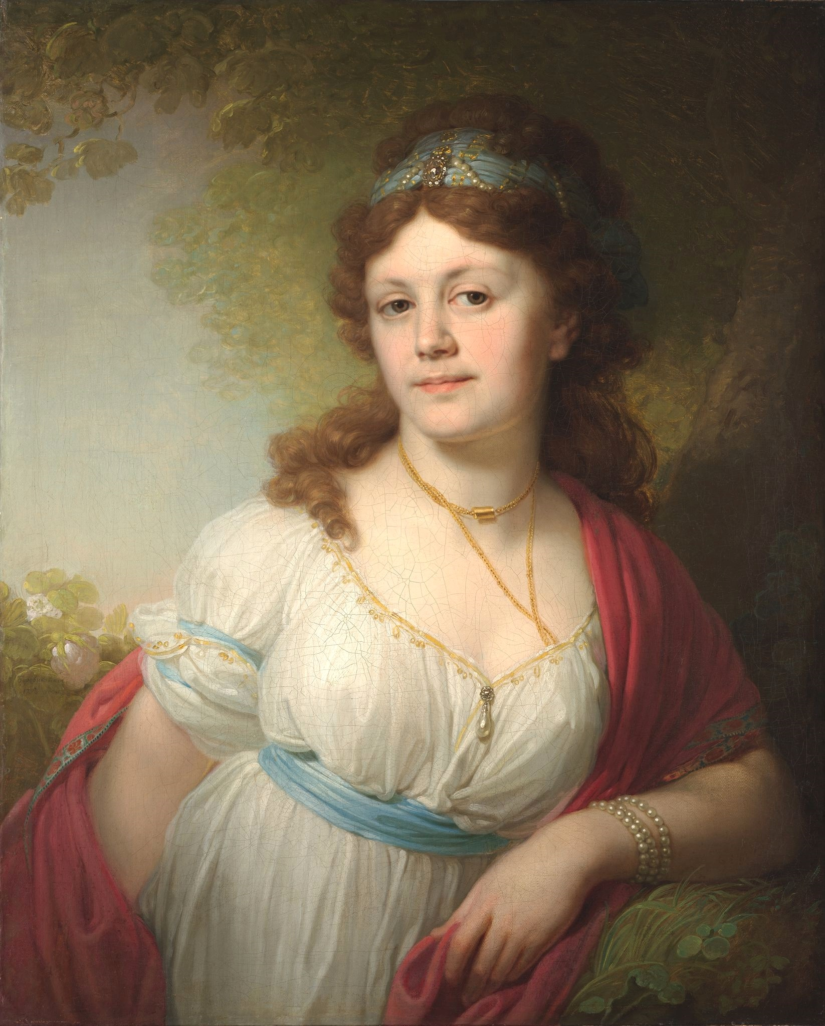 Portrait of Elizaveta Grigorevna Temkina (b.1775), daughter of Potemkin and empress Catherine II of Russia